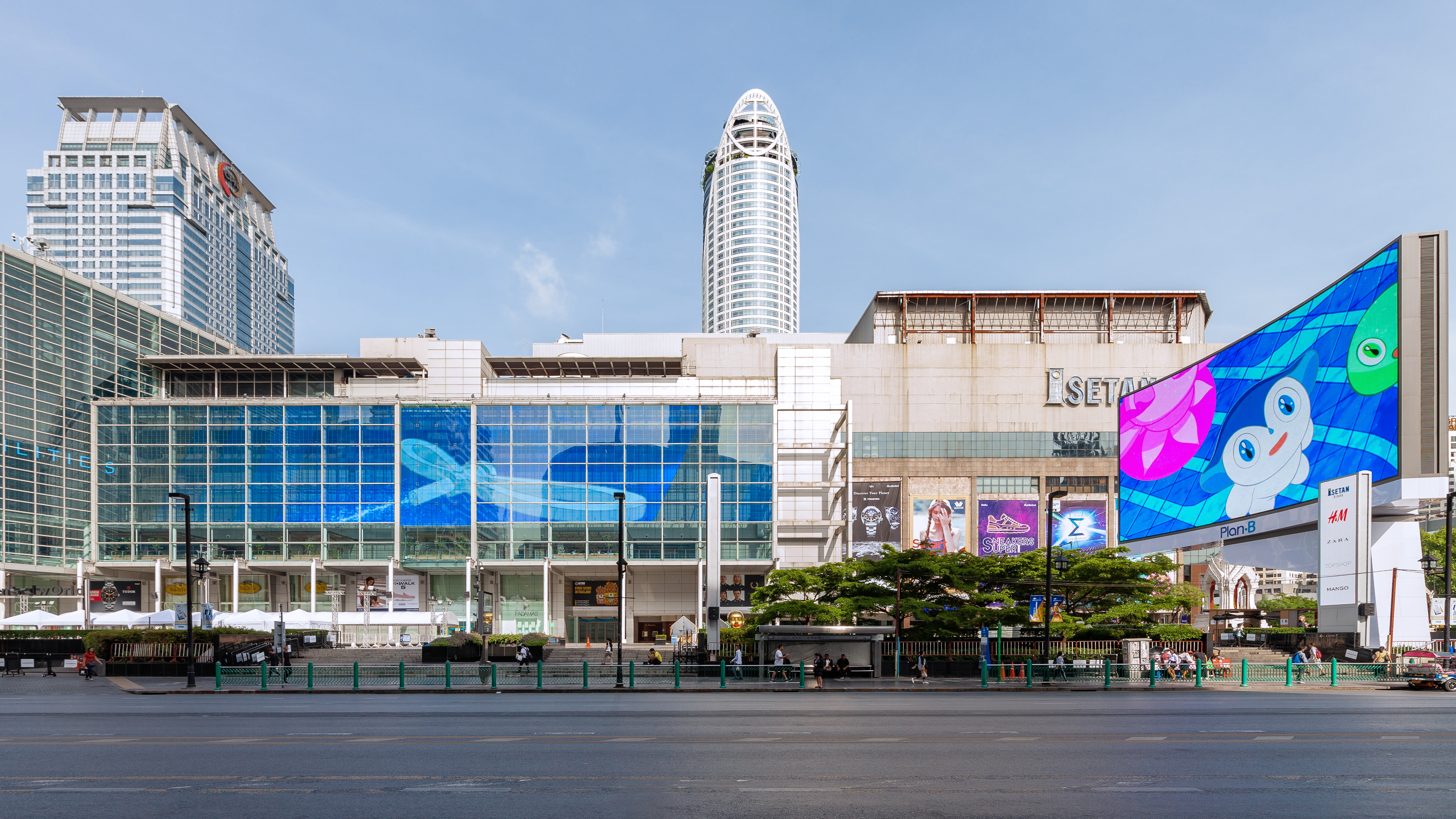 CentralWorld is a shopping plaza and complex in Bangkok, Thailand. It is the eleventh largest shopping complex in the world.